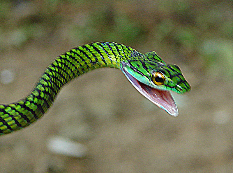 Known in the Columbian Amazon as Lora In context at